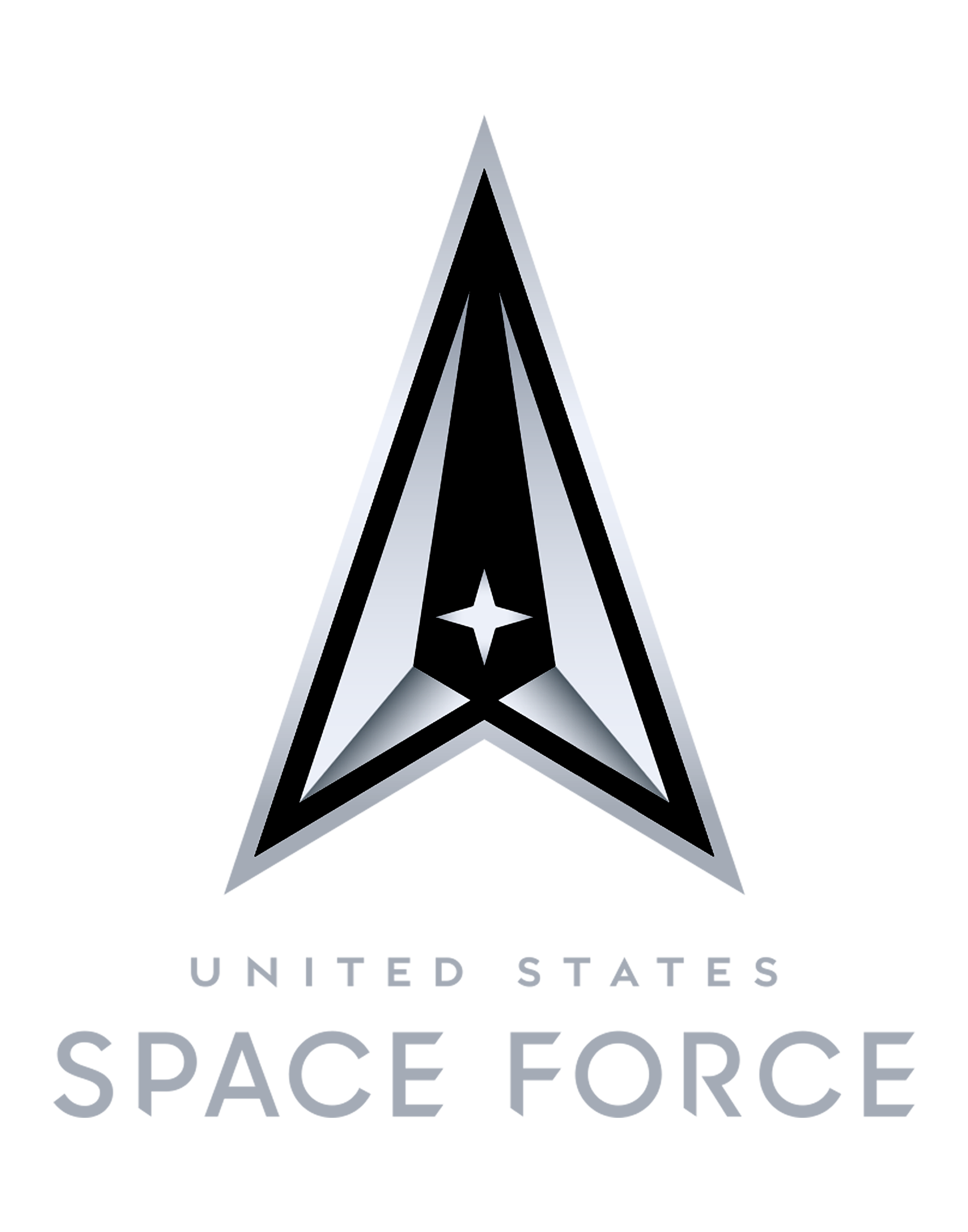 Logo of the United States Space Force.